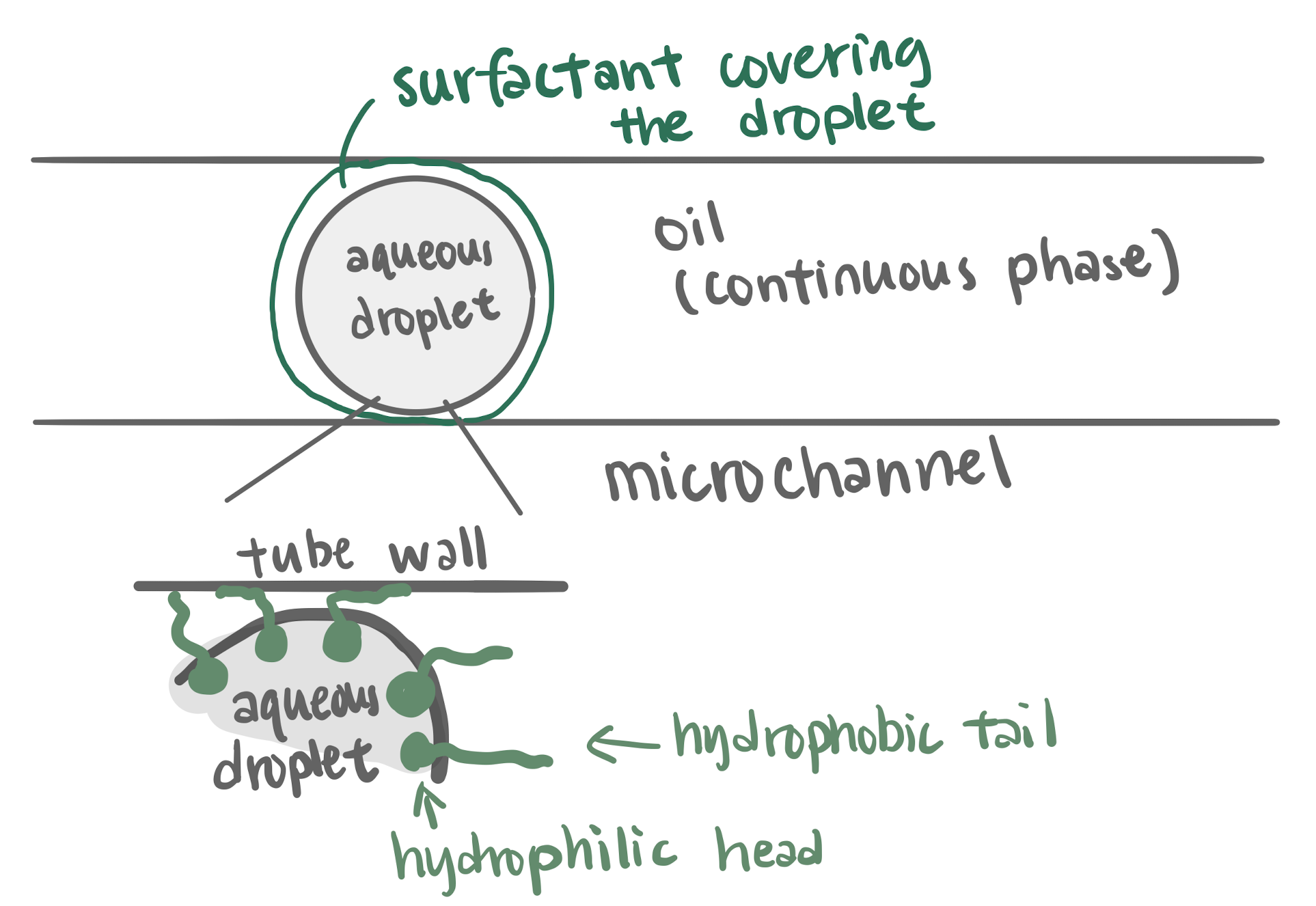 A droplet inside the microchannel with surfactant coating